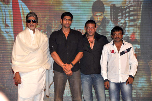 Amitabh Bachchan, Rana Daggubati, Sanjay Dutt, Ram Gopal Varma at Press conference of 'Department'